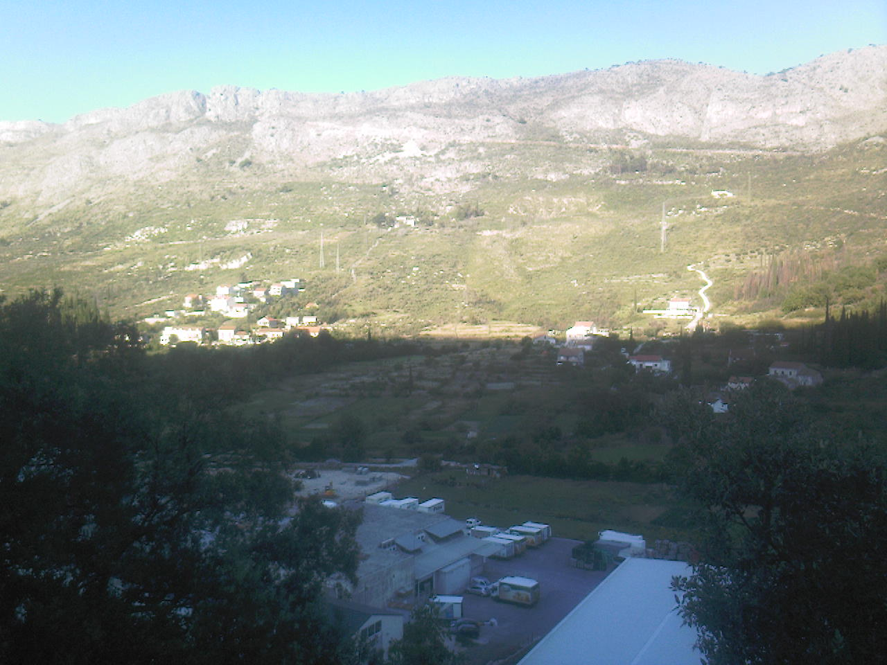 Village Čajkovica near Dubrovnik